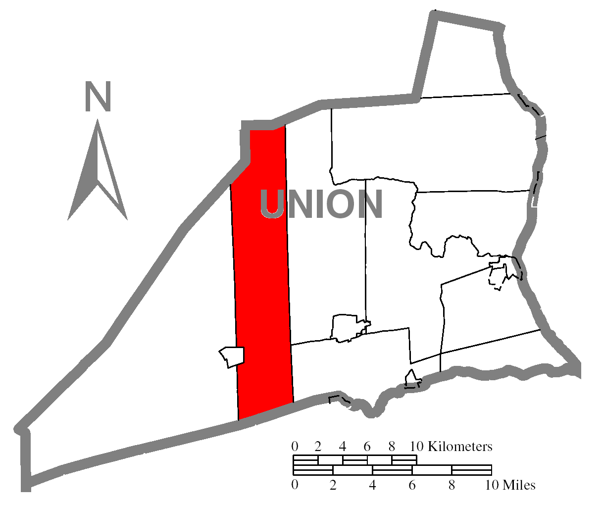 A map of Union County showing Lewis Township, Pennsylvania (alternate) highlighted on the map.